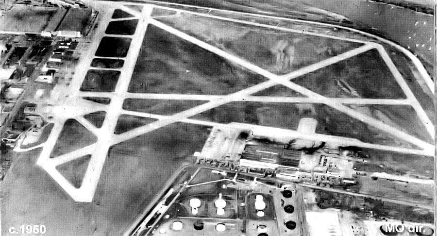 Fairfax Field KS 1950